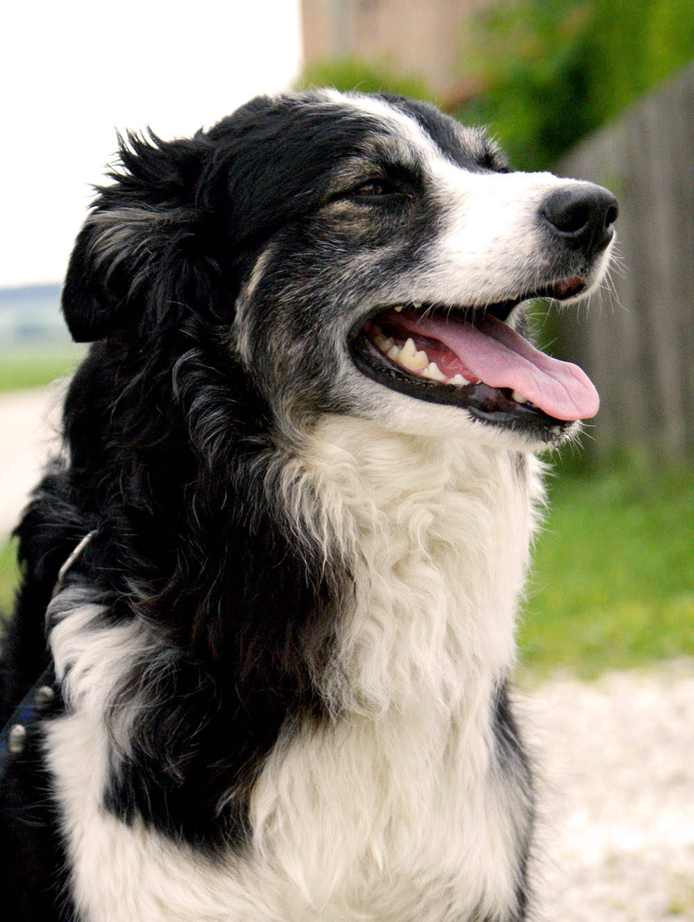 Border Collie (six years old)